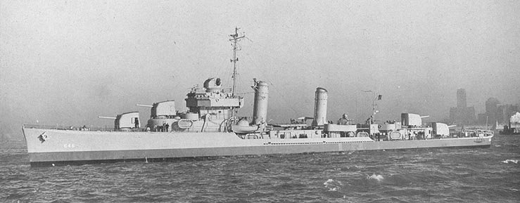 USS Stockton (DD-646) Off Kearny, New Jersey, while being delivered by her builder, the Federal Shipbuilding & Dry Dock Company, 9 January 1943. This is a fine-screen halftone reproduction, prepared as a ship identification aid by the Division of Naval Intelligence. Official U.S. Navy Photograph, from the collections of the Naval Historical Center. Image cropped from original at